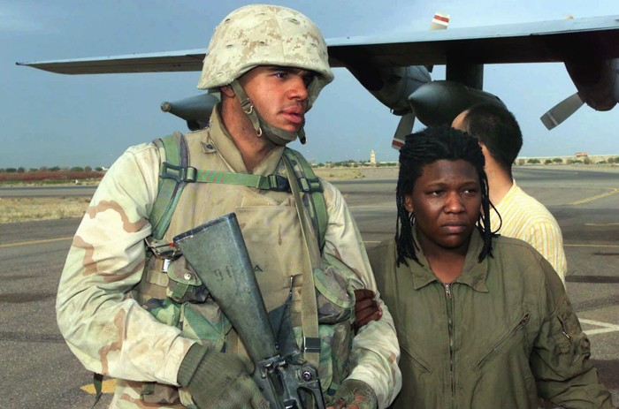 Army Spc. Shoshana Johnson, the first African American female POW, returning to Kuwait City, Kuwait after being captured and held by forces loyal to Saddam Hussein. April 2003.